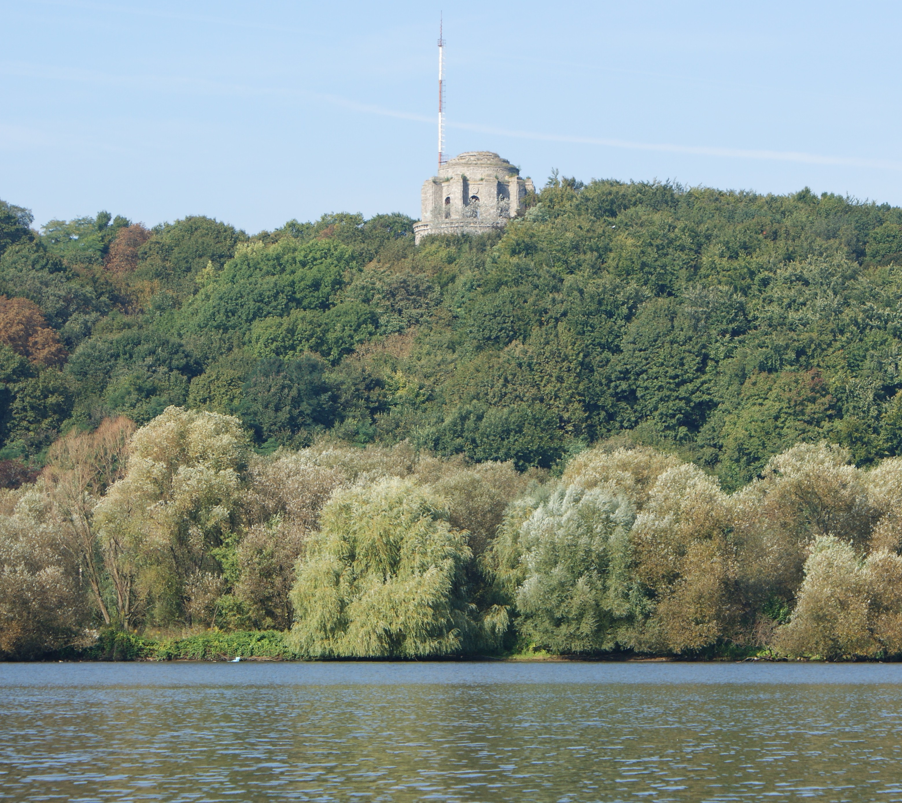 Bismarck Tower in Szczecin (NW Poland) seen from Odra river